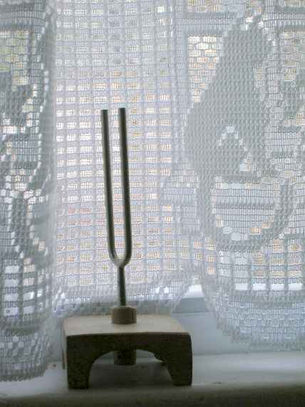 tuning fork stand; windowsill used as resonator